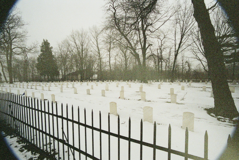 Photo by James R Bouldin